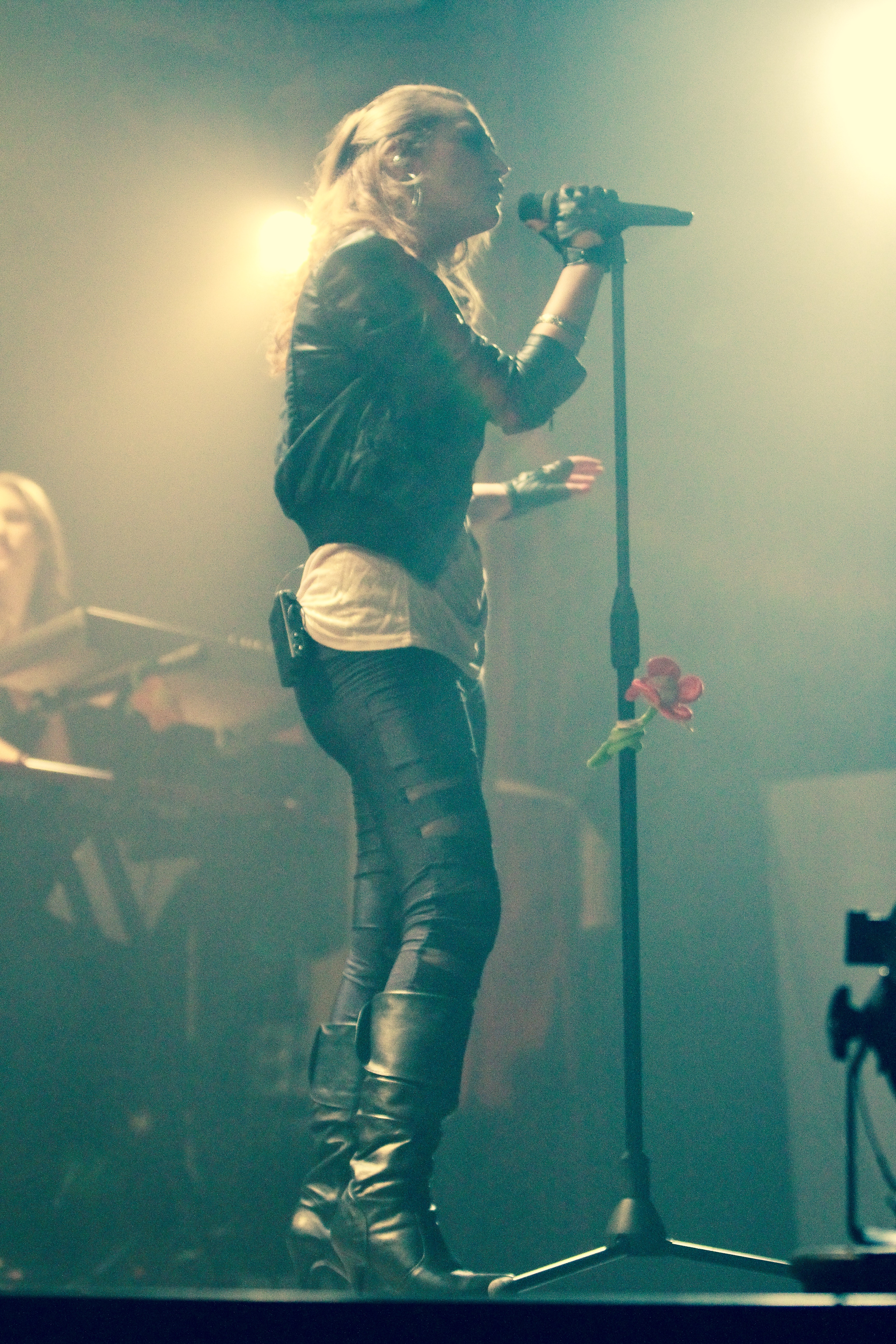 K-Bust performing live in Montreal at the "Urban Stories" album release party on May 23rd, 2012.